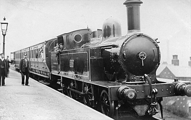 London and North Western Railway 4ft 6in 2-4-2 tank engine No. 2288